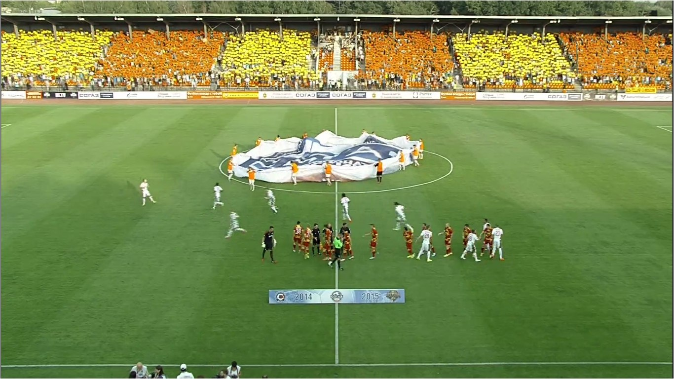 Домашняя поддержка тульского Арсенала